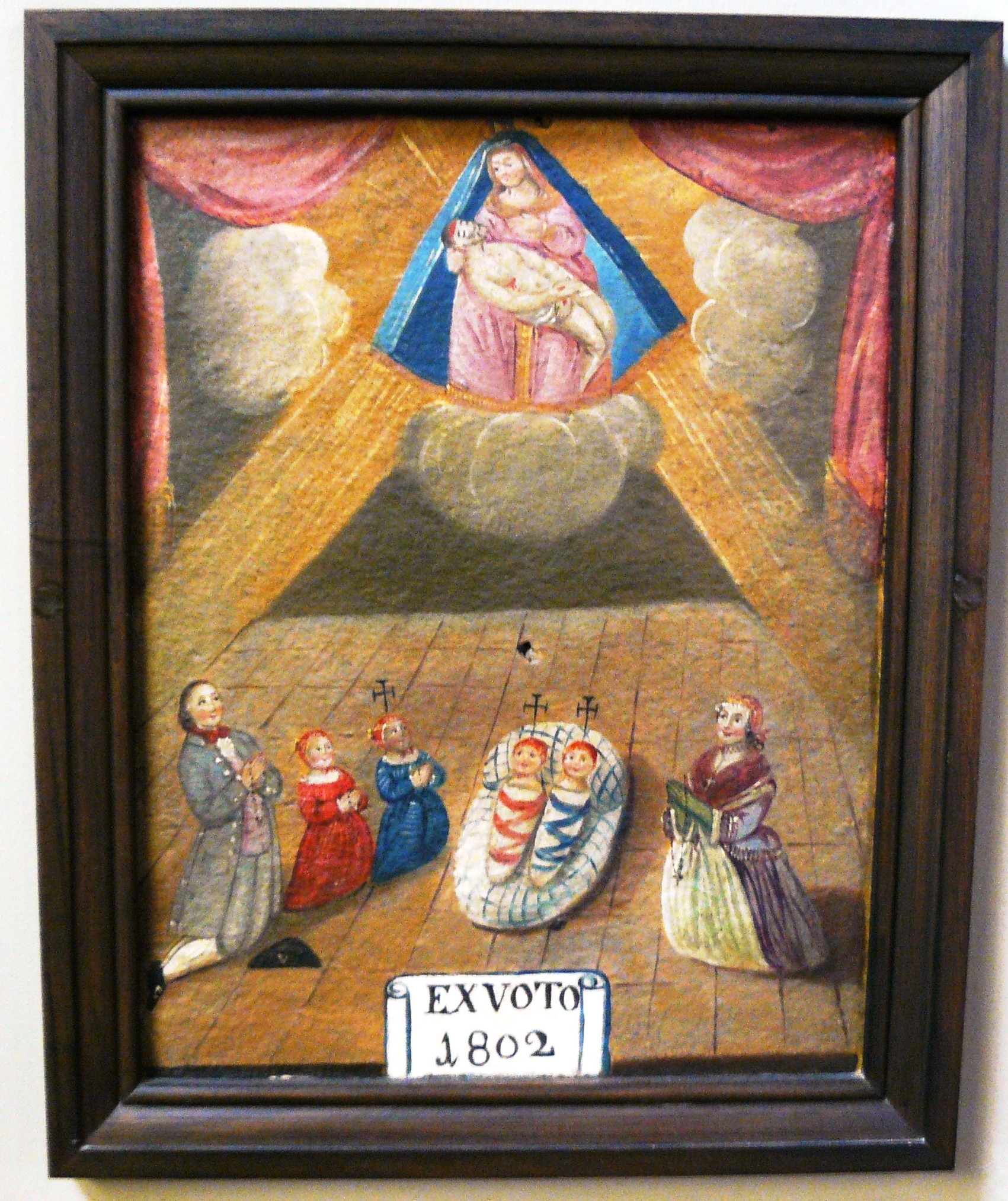 Family with two tightly-swaddled infants